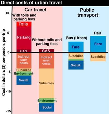 Graph showing transport costs